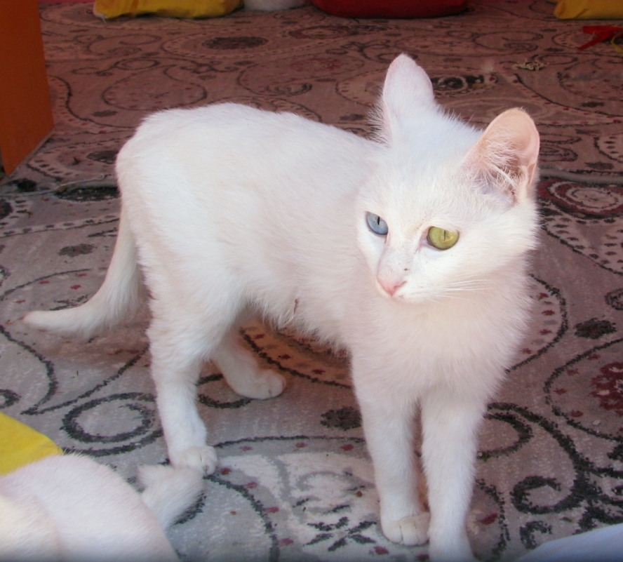 Van cat